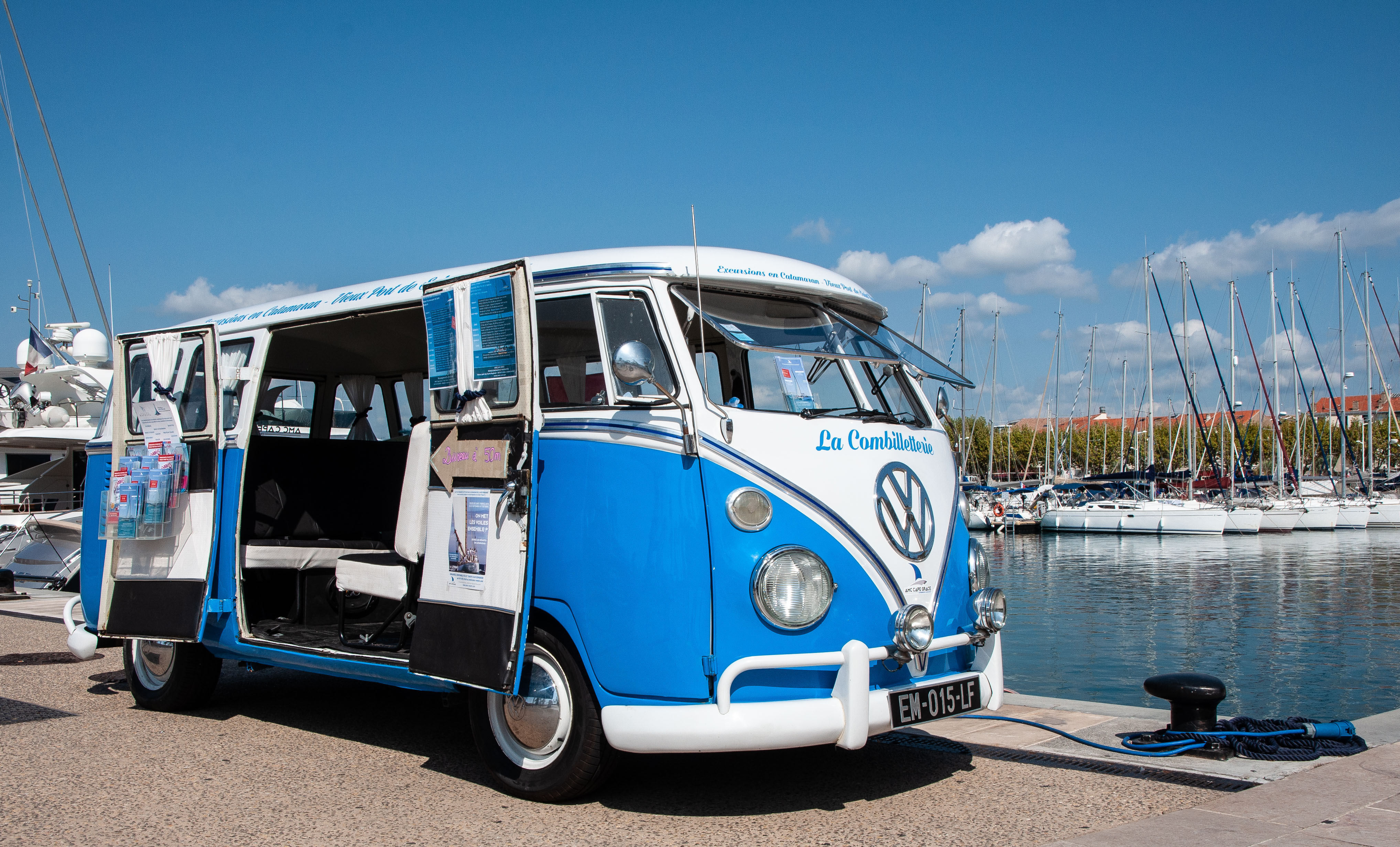 A Combi turned into a box office.